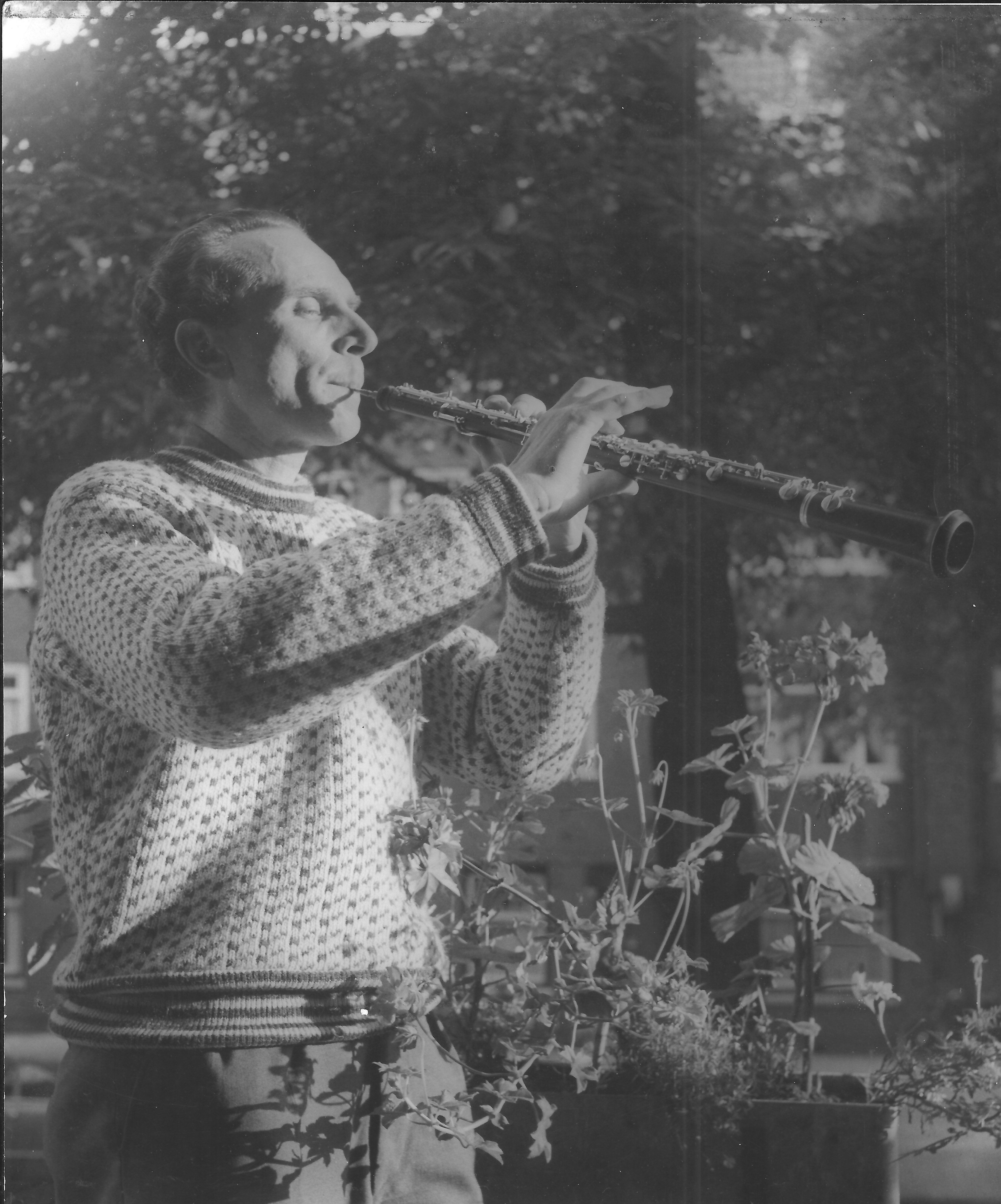 Haakon Stotijn, Dutch oboist,1955.